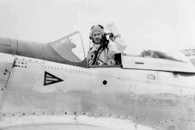 Pusan, South Korea. Wing Commander L. Spence, Commanding Officer No. 77 Squadron RAAF in the cockpit of his Mustang aircraft prior to takeoff on an operational mission over South Korea.